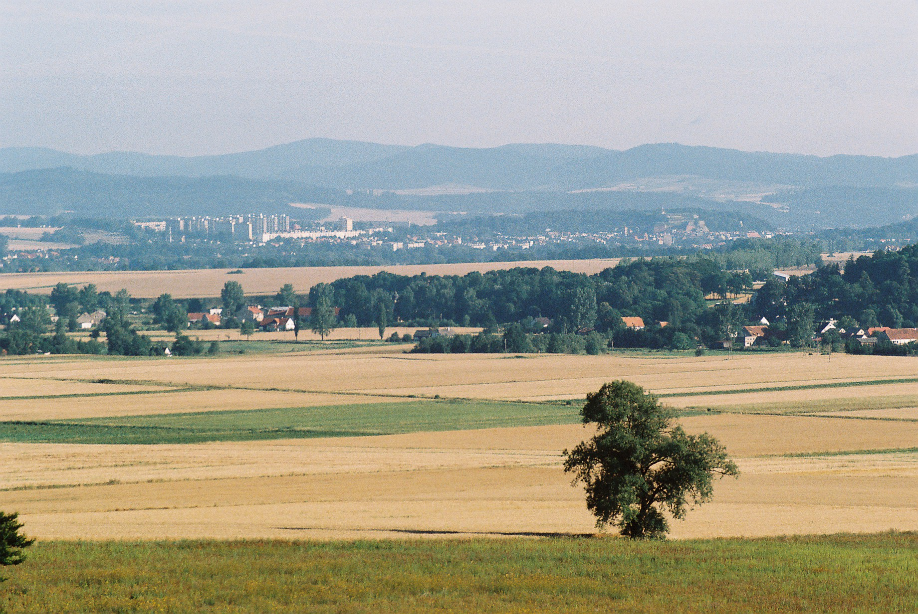 Kłodzko Valley from the slopes of Wapniarka in the village Żelazno. Żelazno's homesteads seen in the middle of the picture, buildings of Kłodzko further in the background. Bardzkie Mountains on the horizon.